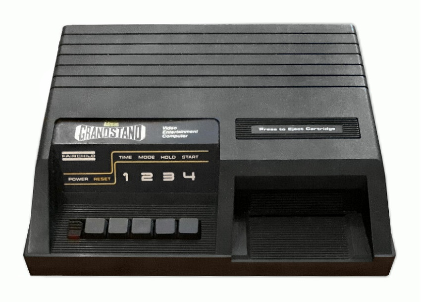 Adman Grandstand Video Entertainment Computer (Fairchild Channel F clone)